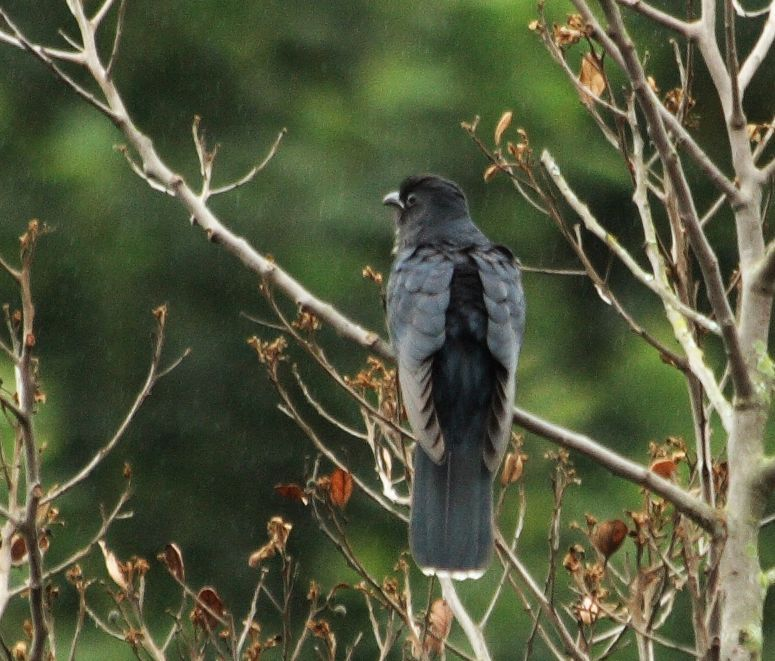 A Black Cuckoo at Fenton Place, Pietermaritzburg, South Africa